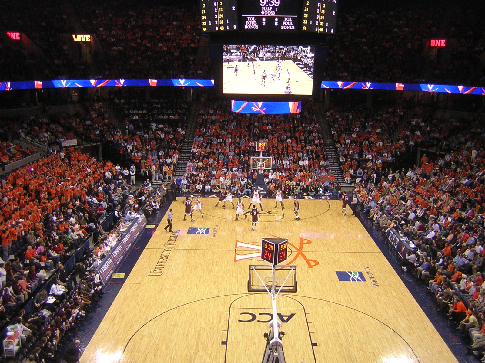 Virginia Tech vs University of Virginia men's basketball at John Paul Jones Arena